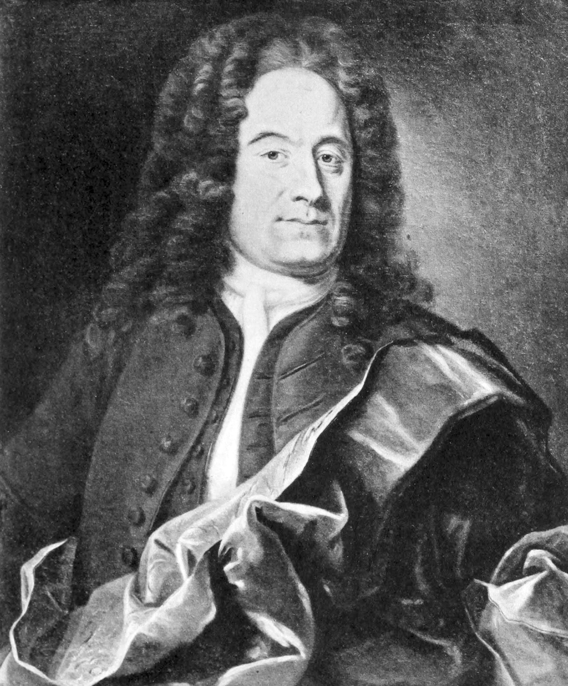 Johan Moræus (1672-1742)